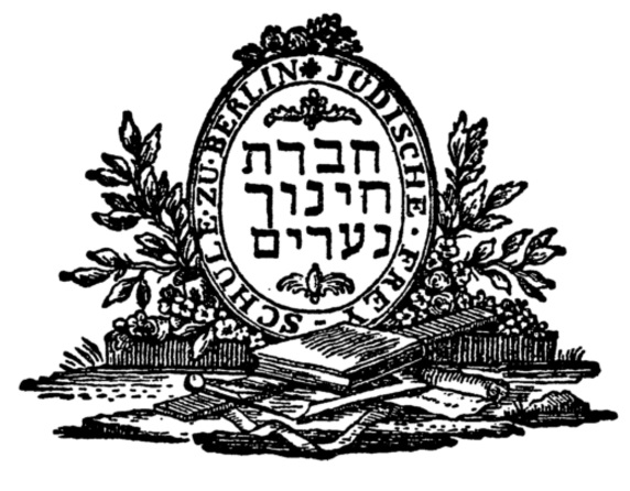 Logo of Judische Freyschule in Berlin